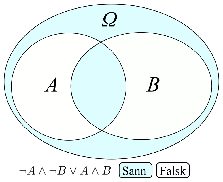 XNOR function